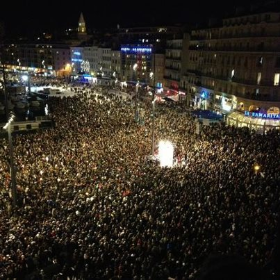 Bottazzi MP2013 / Opening 4000 people